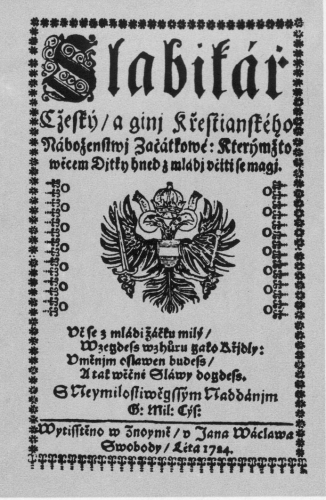 Christian syllabary